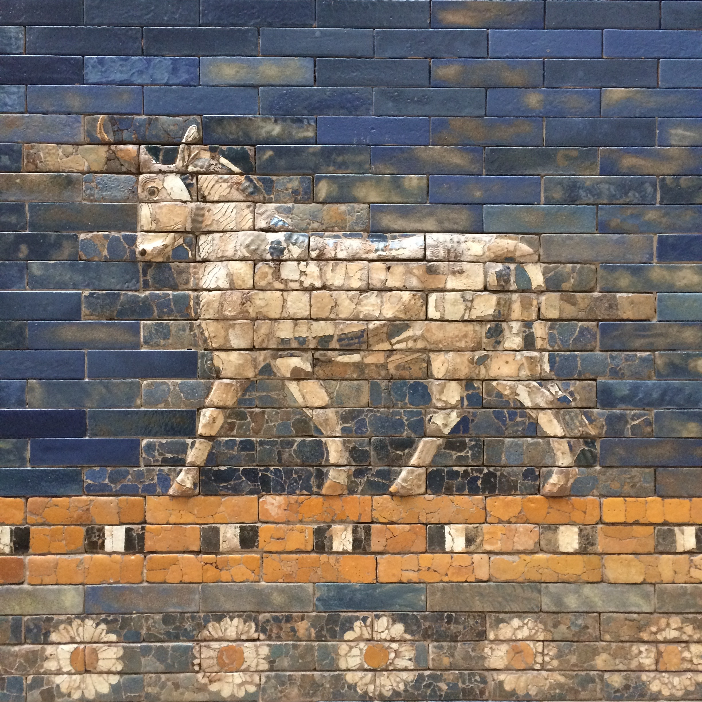 Horse from the Ishtar Gate